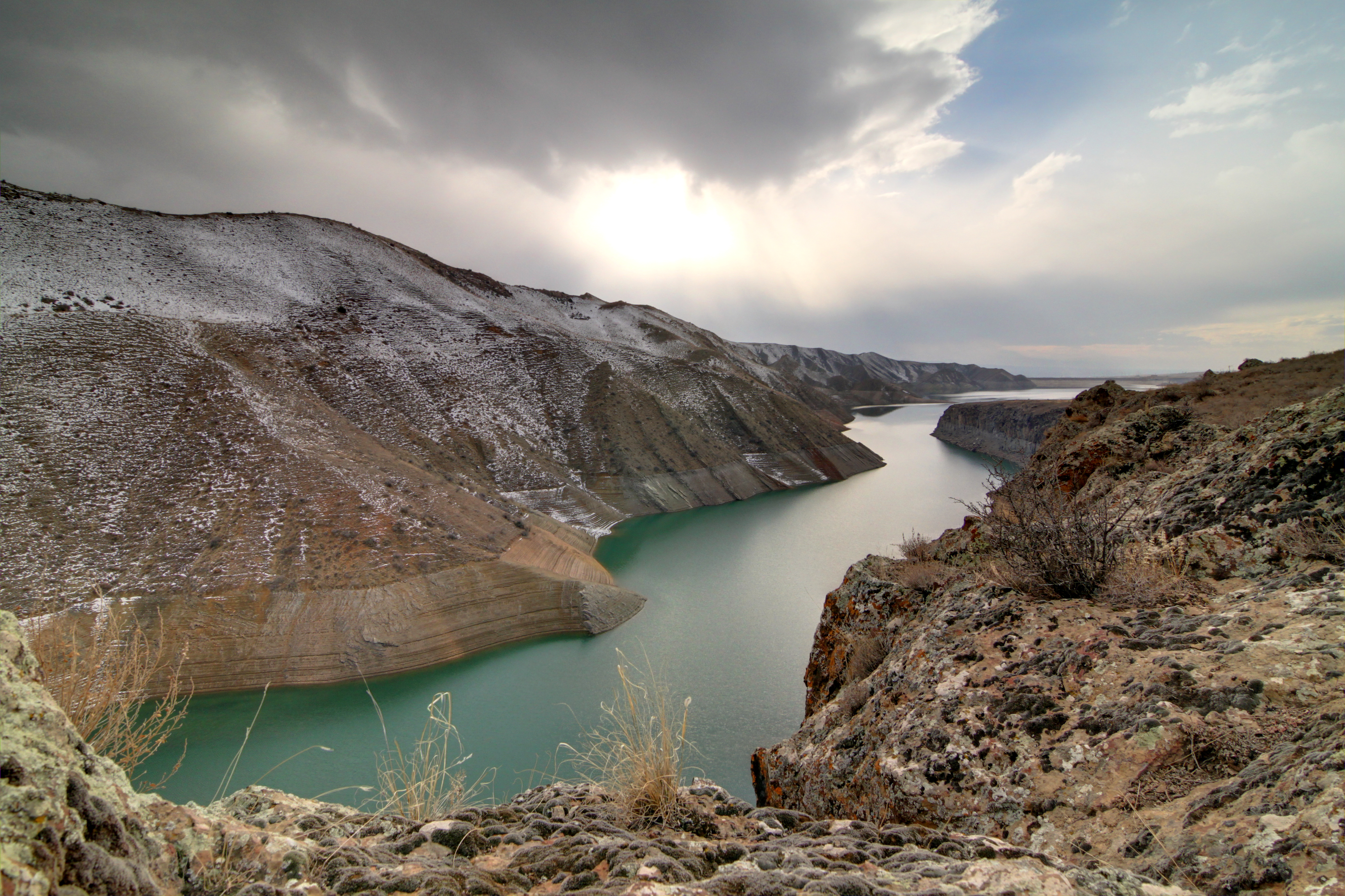 The Azat Reservoir along the Azat River in the Kotayk Province of Armenia.